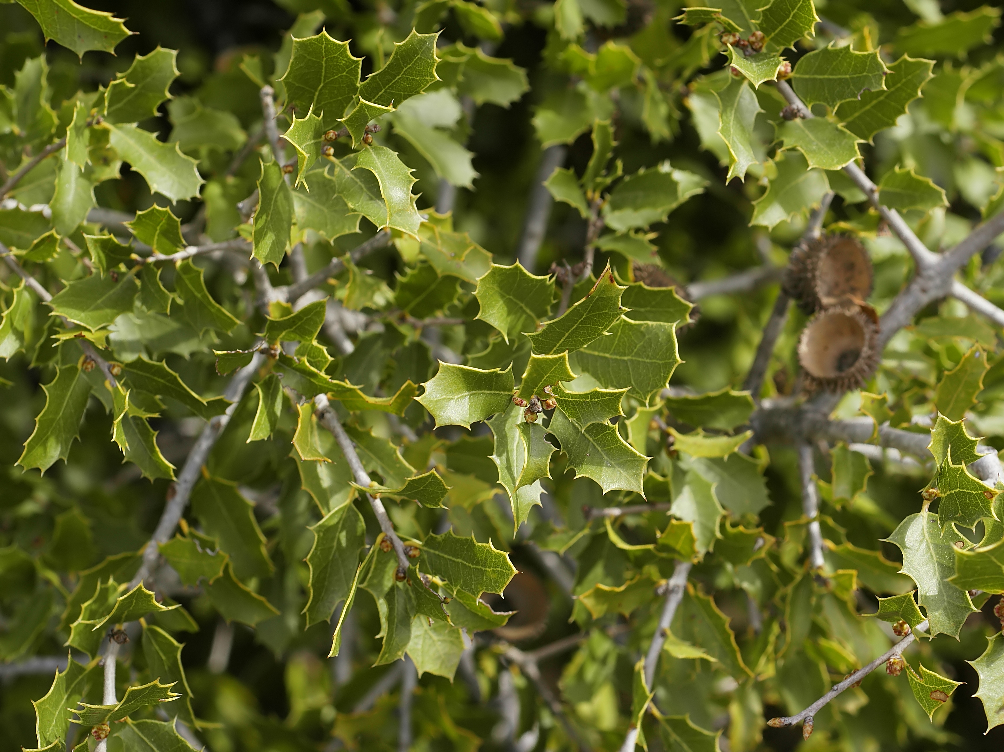 Plant near el Perelló, Catalonia, Spain